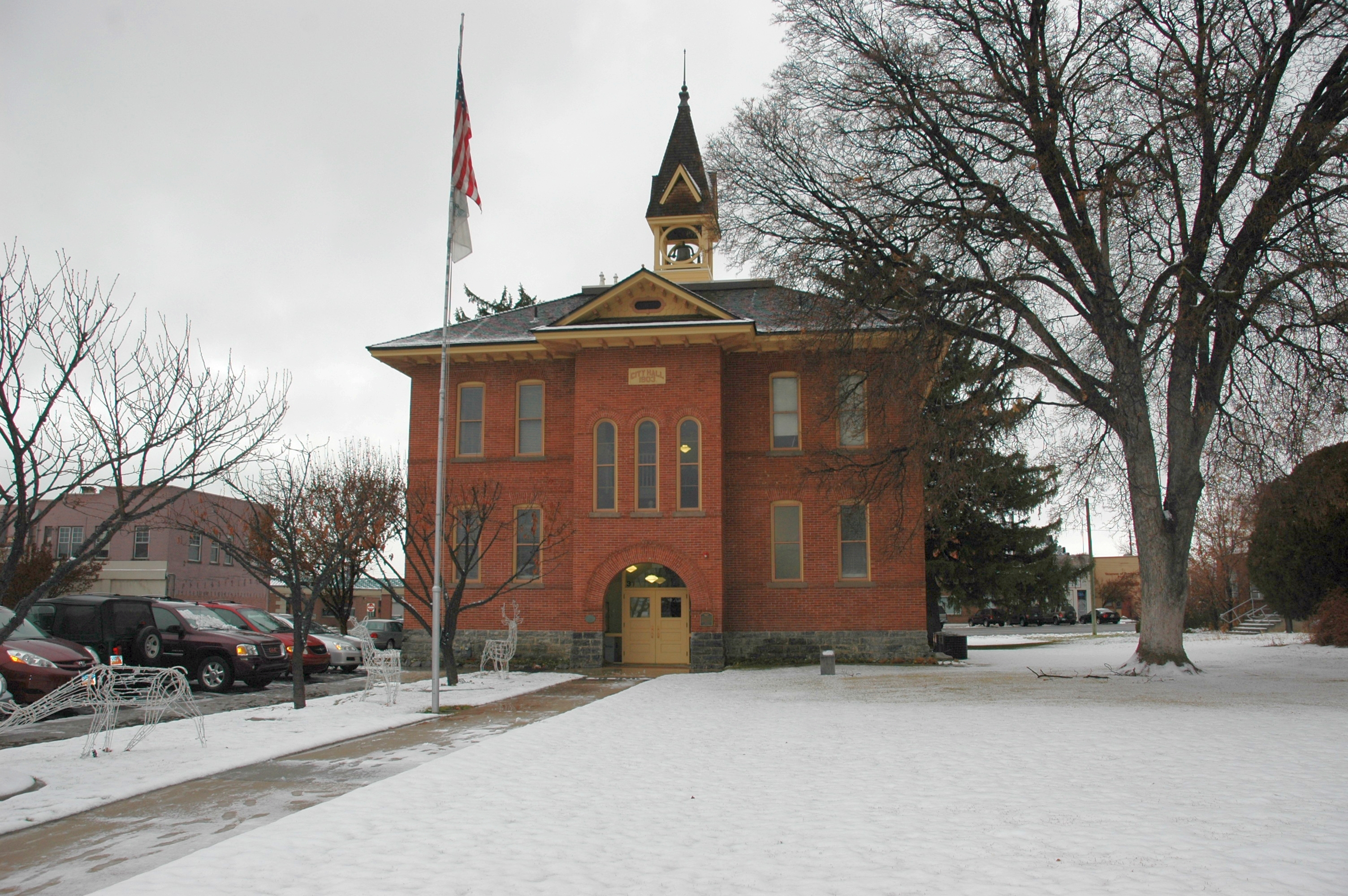 The American Fork City Hall, a historic building in American Fork, Utah, United States.